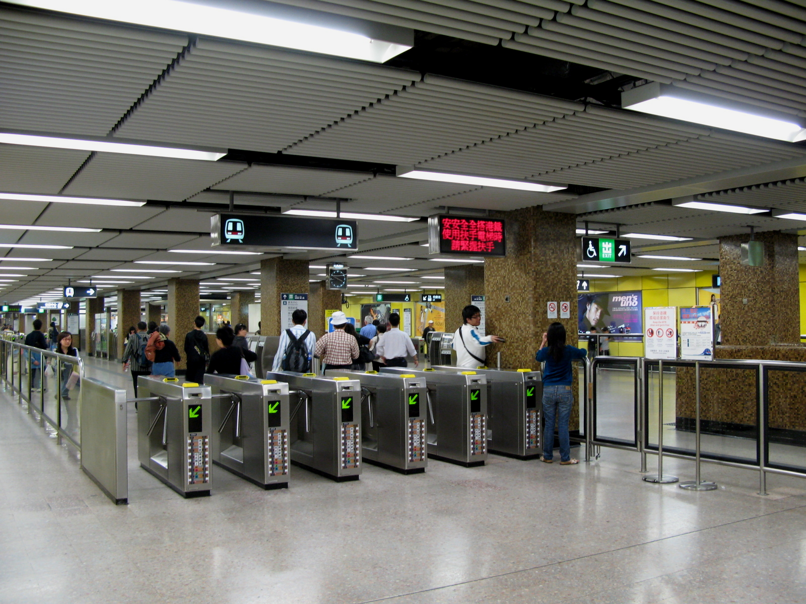 港鐵黃大仙站 HK MTR Wong Tai Sin Station Concourse